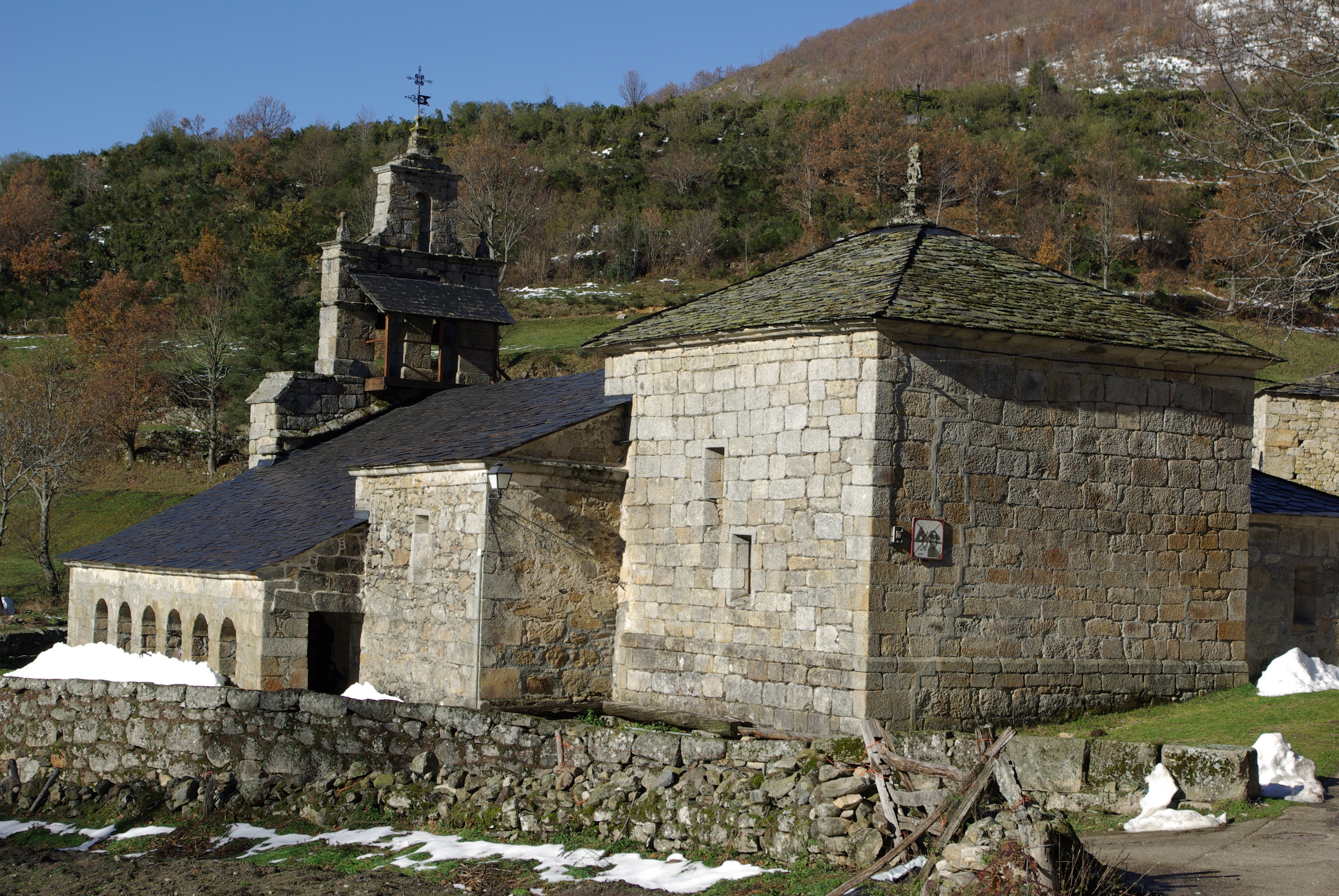 Parish church of Suarbol, Candín (León, Spain)